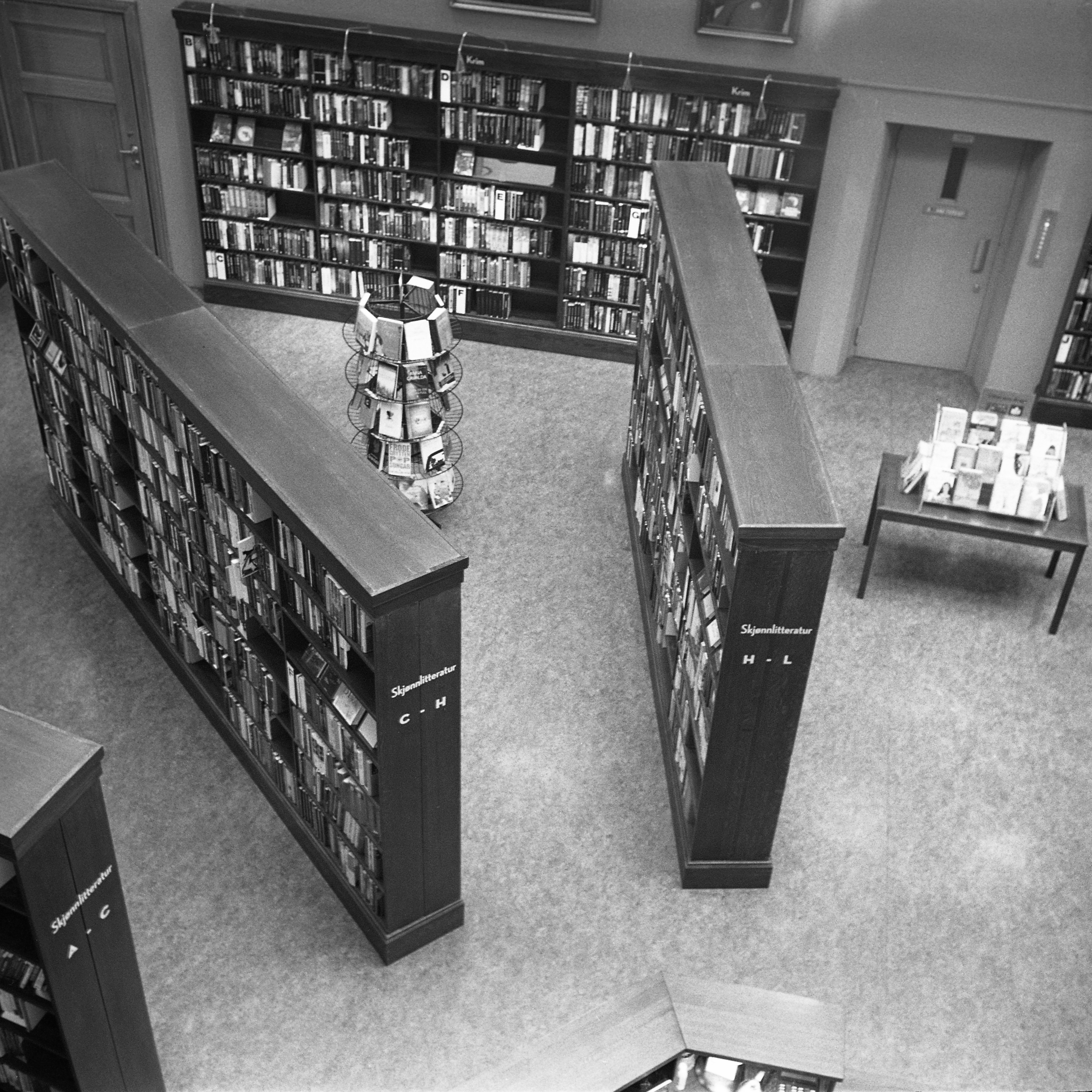 The inside of bergen public library